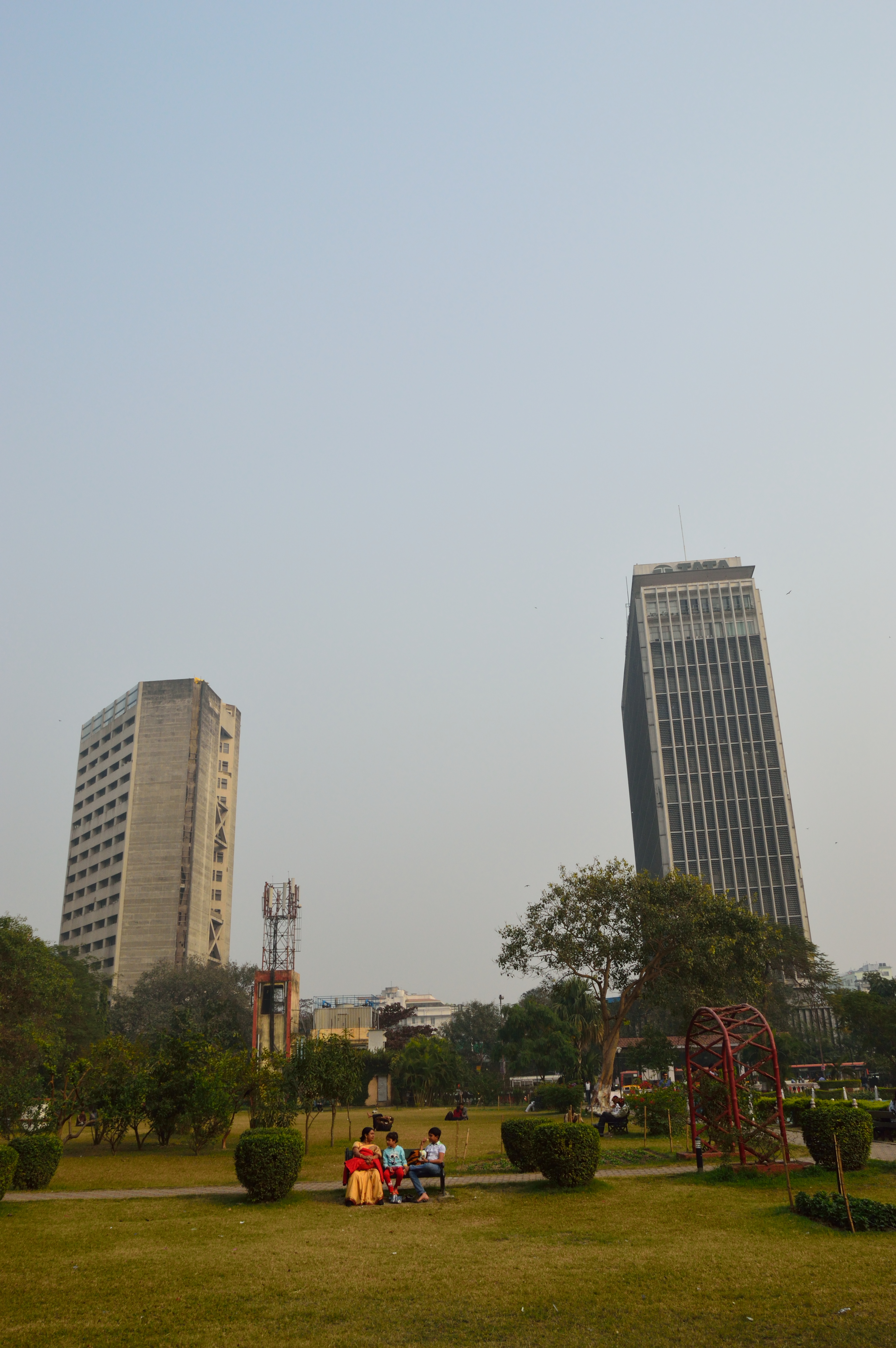 Photographed in Kolkata.